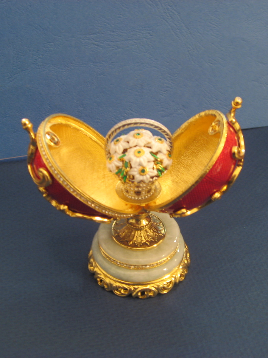 Modern replica of the Fabergé Spring Flowers Egg by the manufactory